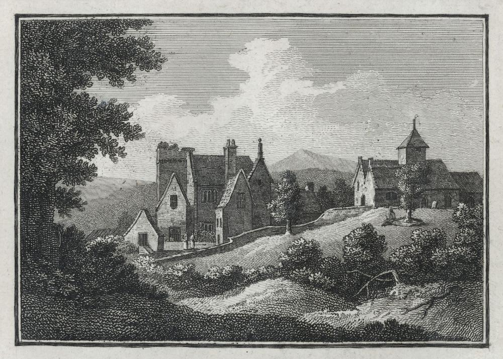 A view showing Penhow Castle and St. John the Baptist Church.